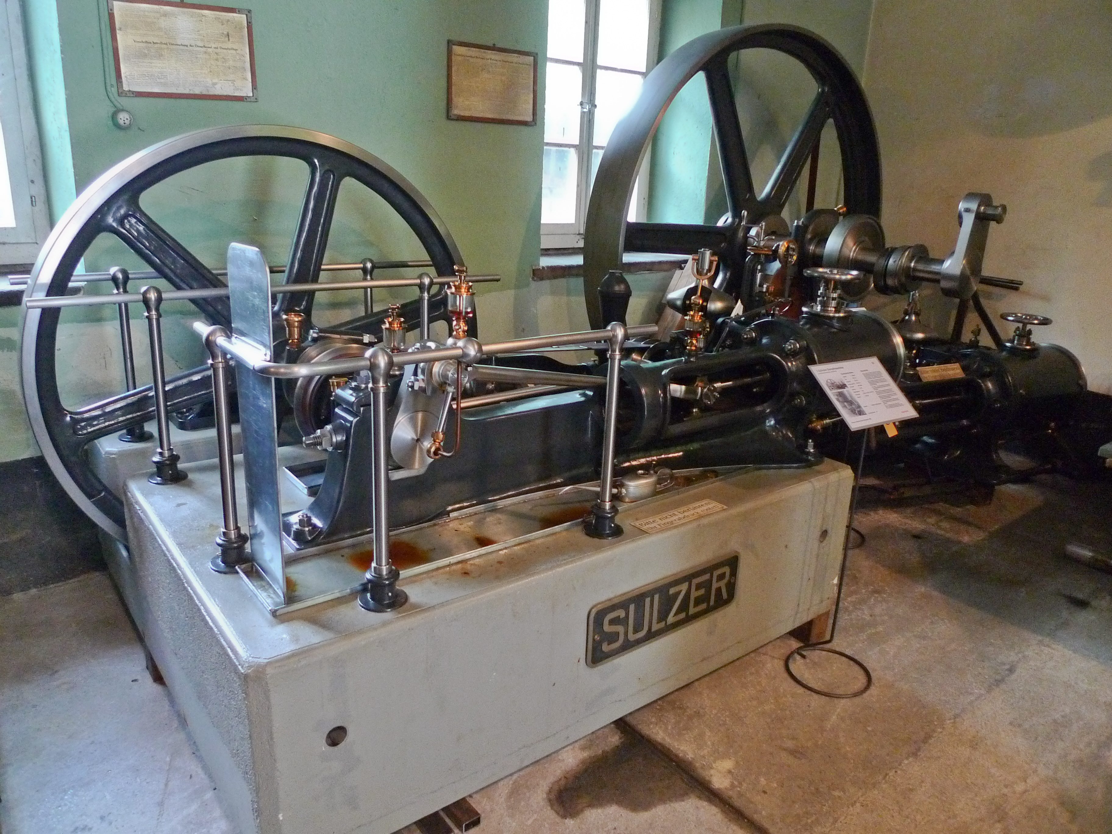 Steam engine built by Sulzer, Winterthur, Switzerland in 1890; used until 1910 at the Molkereifachschule Rütti bei Zollikofen, now on display at the Vaporama Thun. One cylinder, stroke 350mm, 200 rpm, power 15 hp, operating pressure 7 at, size 2.5×1.7×1.4m, weight 1.5 tons.